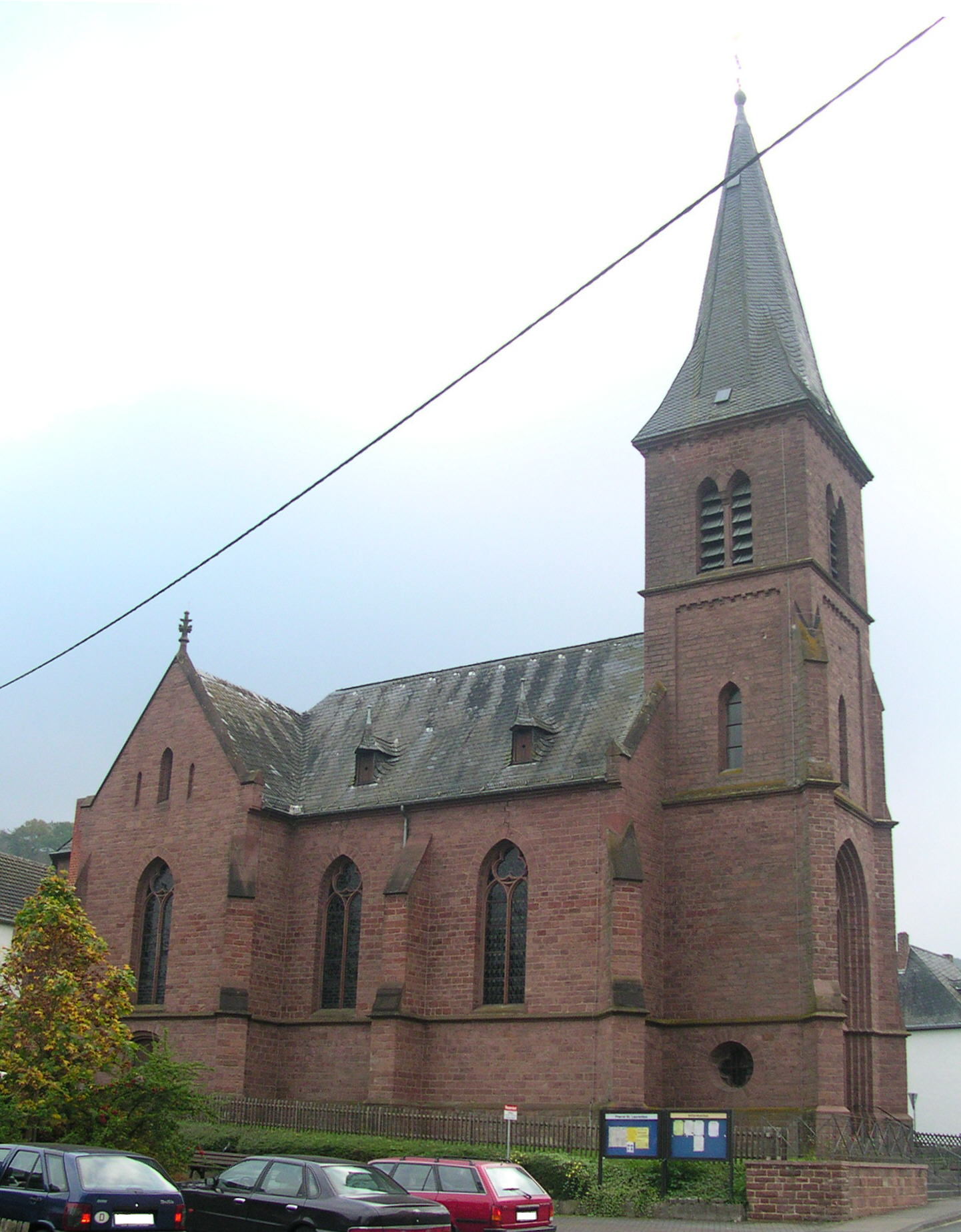 catholic church saint Laurentius in Bitburg-Erdorf